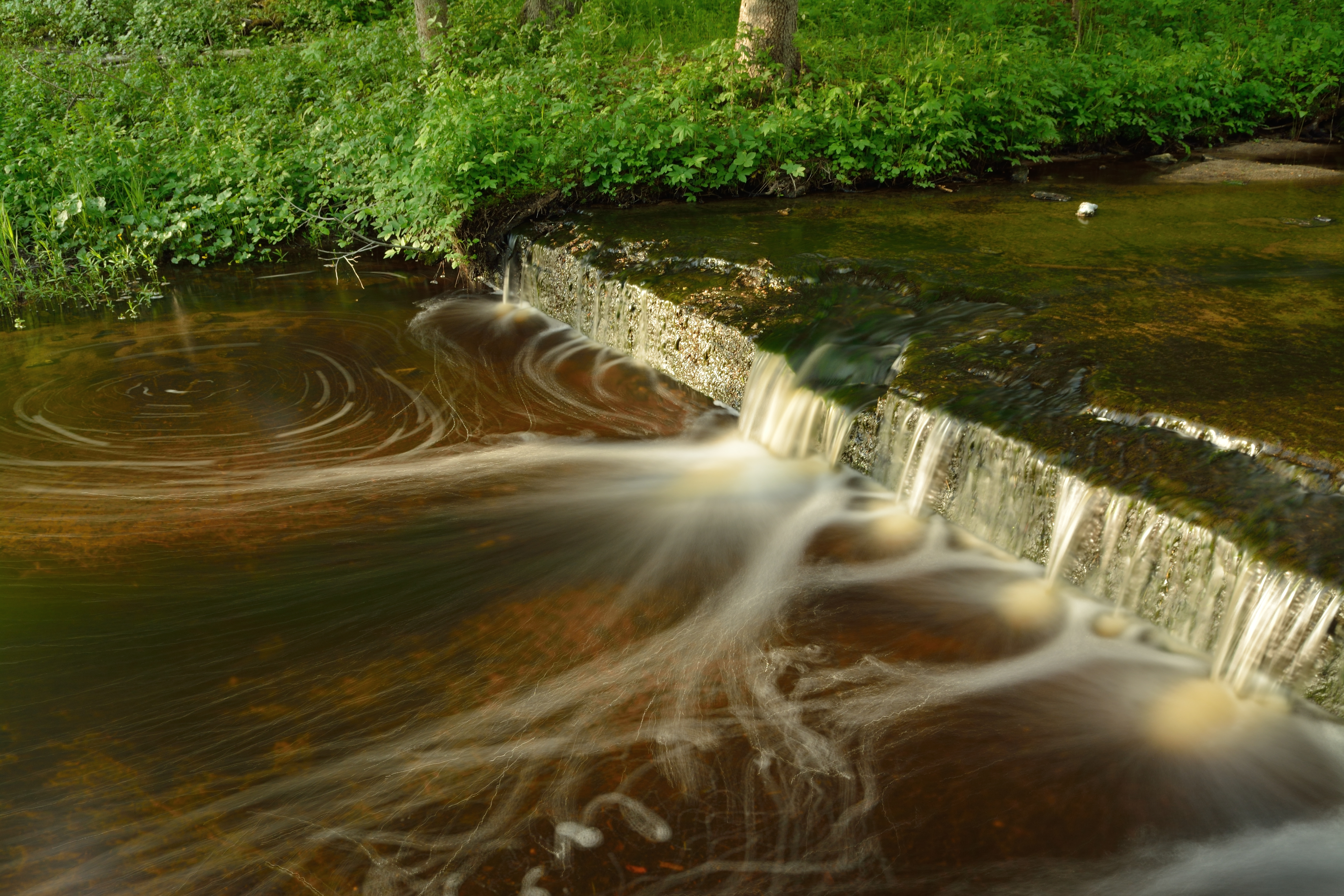 Stream Treppoja (direct translation: stairs stream)